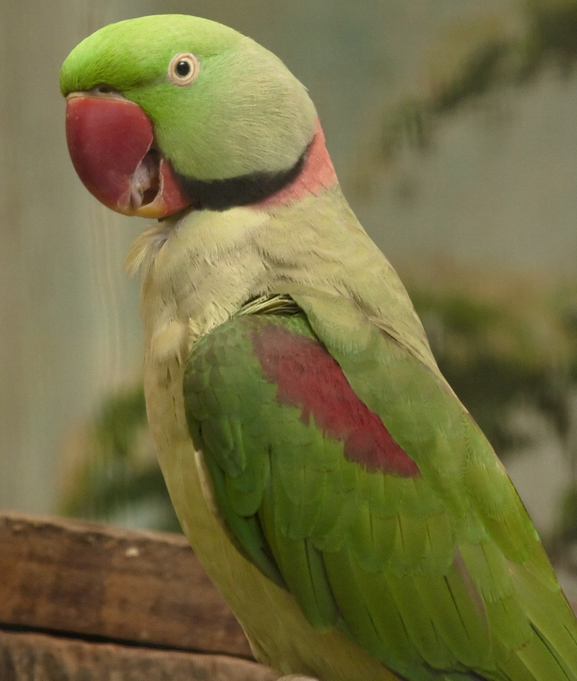 The Alexandrine Parakeet Psittacula eupatria is a member of the psittaciformes order and of the psittacines family. The species is named after Alexander the Great, who is credited with the exporting of numerous specimens of this bird from Punjab into various European and Mediterranean countries and regions, where they were considered prized possessions for the nobles and royalty